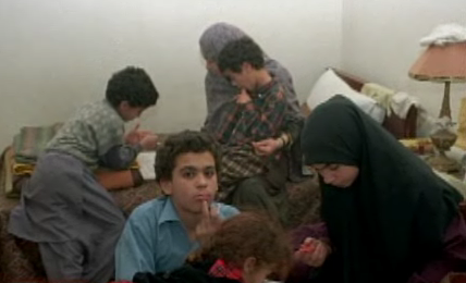 A young Omar Khadr and his family in Canada in the 1990s. He is a Canadian citizen who was convicted for war crimes committed as a teenager in Afghanistan under the United States Military Commissions Act of 2009 and detained at Guantanamo Bay, Cuba, before being released in 2012. However, he was only a young teenager in Afghanistan at the time.